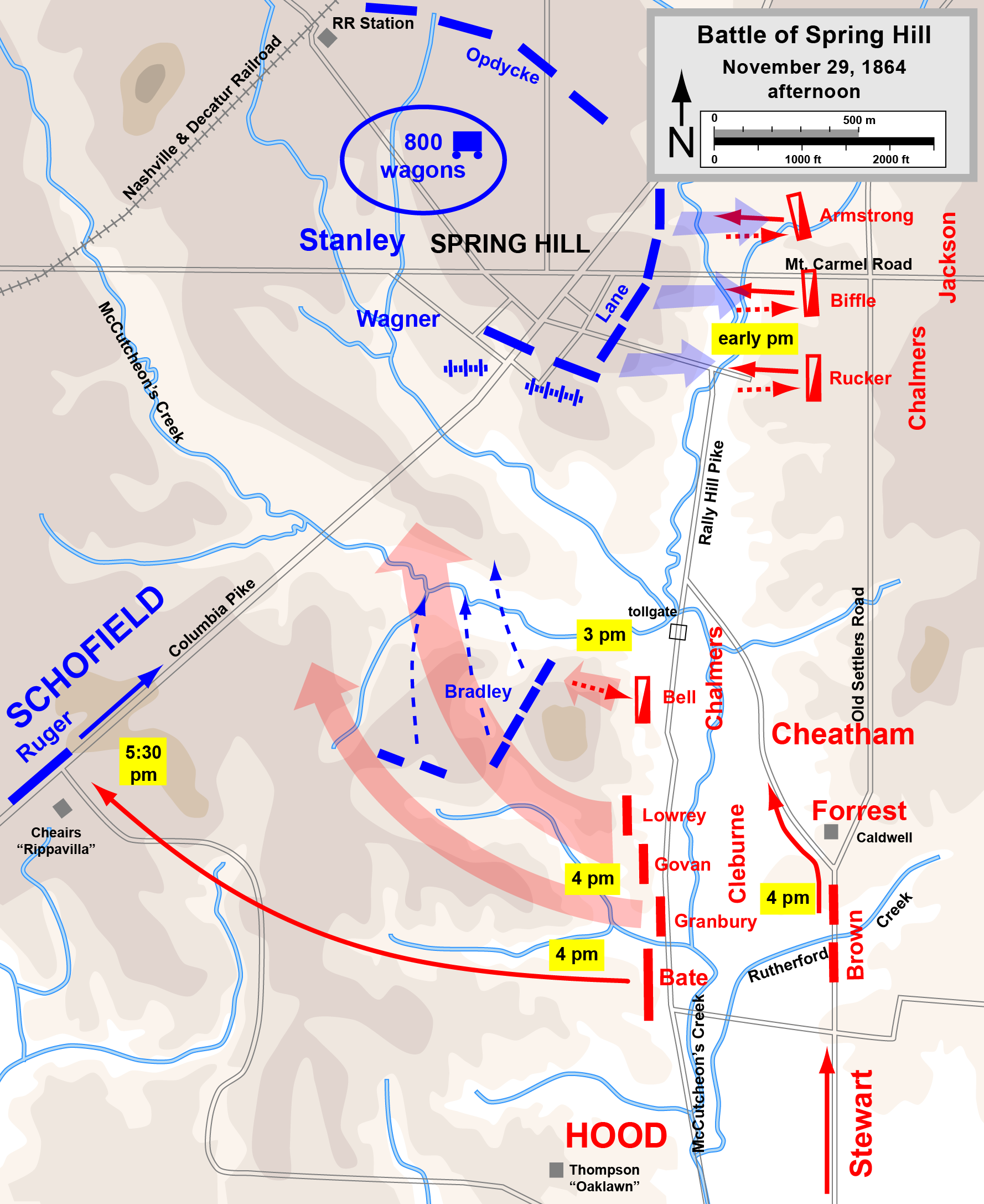 Map of the Battle of Spring Hill of the American Civil War: actions in the afternoon of November 29, 1863.